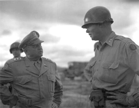 Eighth Army Commander Lieutenant General Walton Walker (left) is met by Major General William Dean at an advance airfield near Taejon, July 7, 1950. Confirmation source: Giangreco, D. M. War in Korea: 1950-1953. (Presidio Press). source